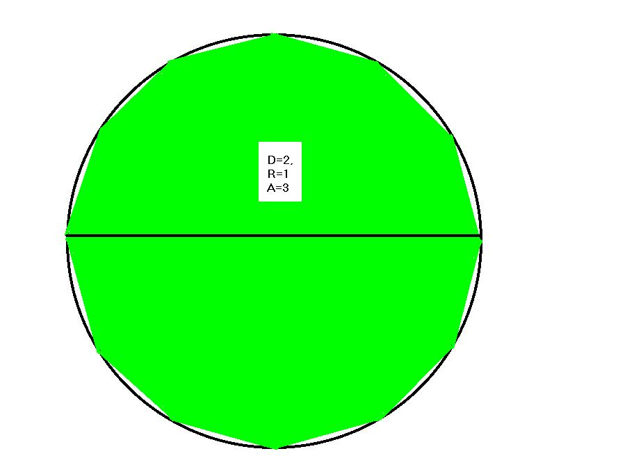 Area of inscribed regular dodecagon 内接正十二边形面积=3R